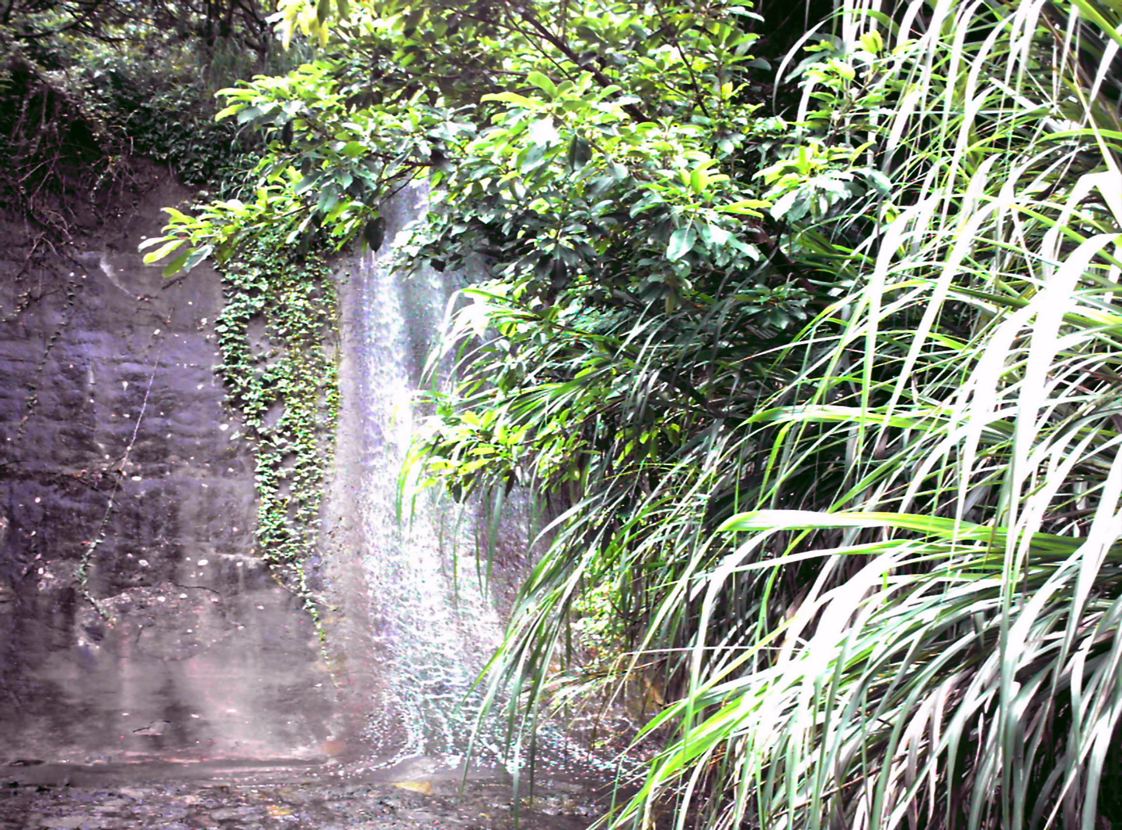 Water overflow to form a little waterfall, Lower Reservoir, Siu Sai Wu, Beacon Hill, Kowloon Tong, Hong Kong 中文（香港）: 香港，九龍塘，筆架山，小西湖，下遊蓄水池的水滿溢出堤壩形成小瀑布。